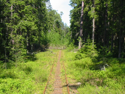 Railway tracks through forest, on the Estonian island of Naissaar